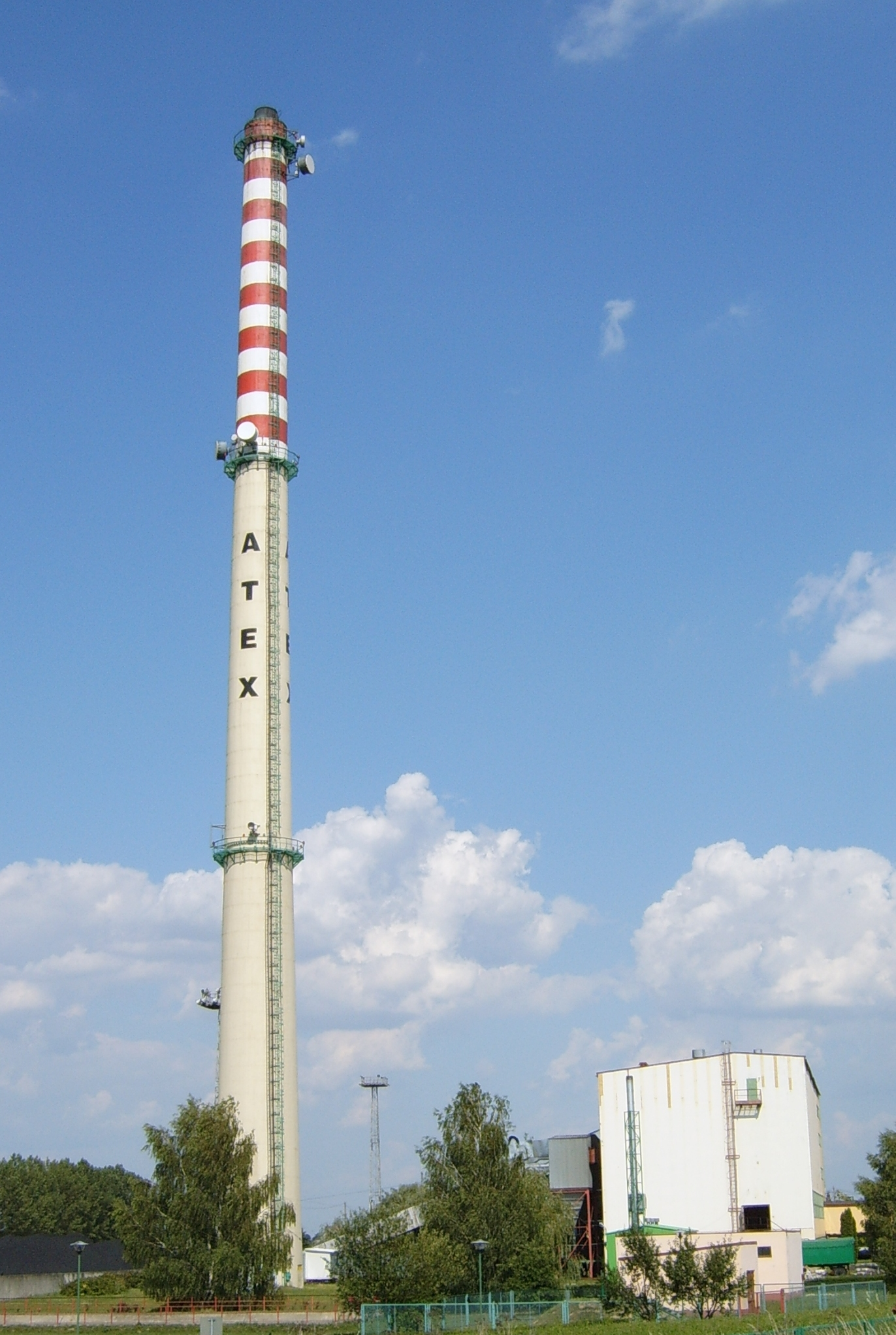 Heating plant "Szopinek" in Zamość